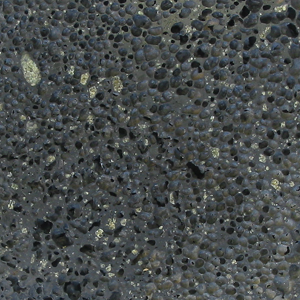 Photographer: Siim Sepp Date of the creation: 25th April, 2005. Diameter is 10 cm. Description: vesicular basalt with olivine phenocrysts. Rock sample is from La Palma, Canary islands and belongs to the University of Tartu.